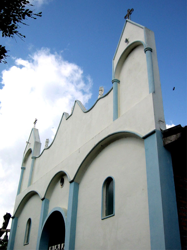 The new, rebuilt church in El Mozote, Morazan, El Salvador.